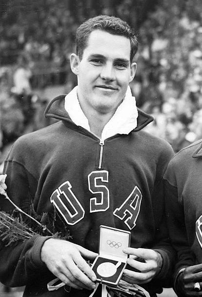 LF57 1952 Wire Photo BARNARD DILLARD DAVIS Olympic Hurdles Display Medals Pose